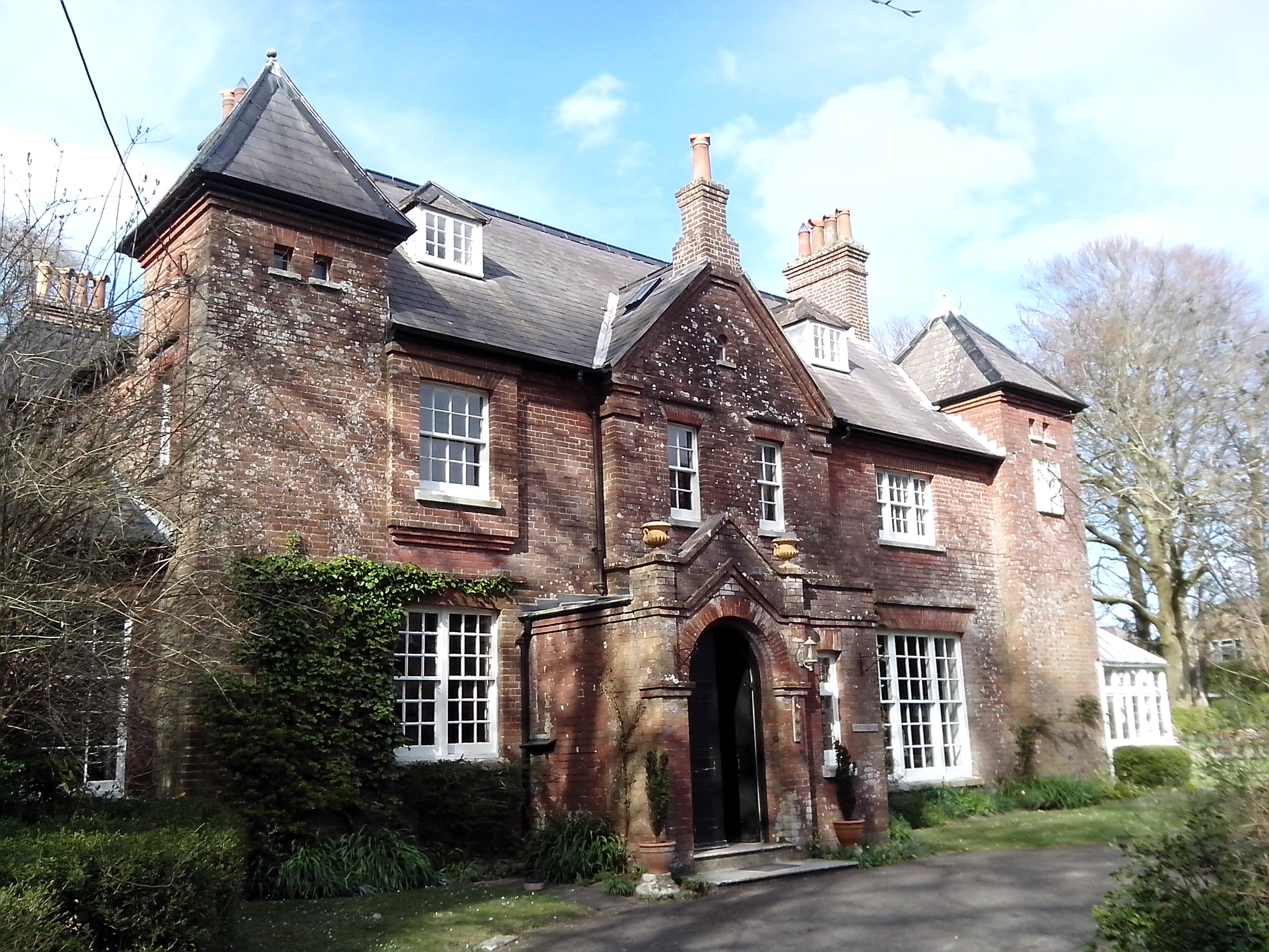 Thomas Hardy's house known as Max Gate, Dorchester.